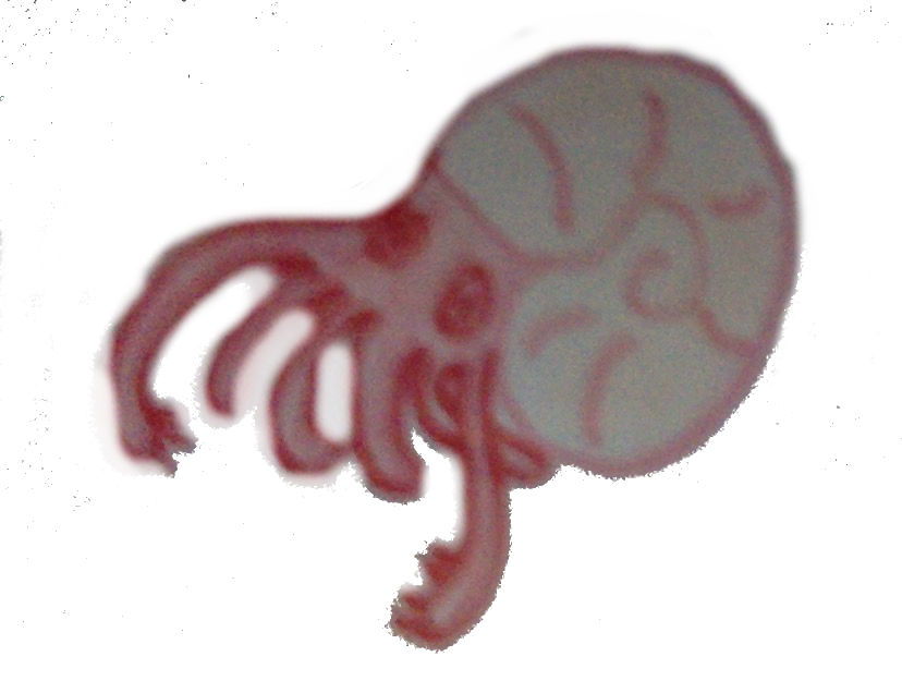 Crop of file in filename